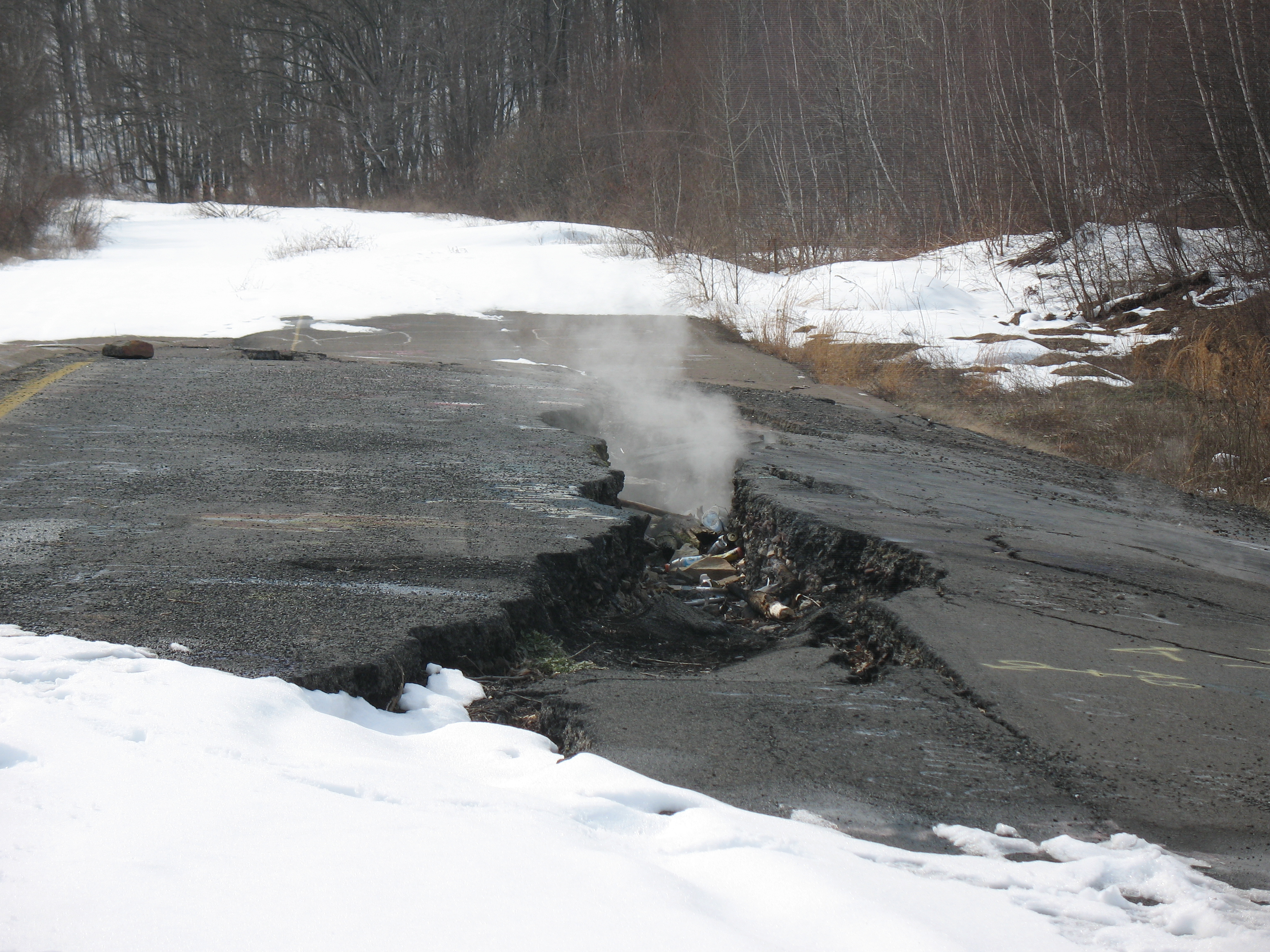 View of smoke rising through a fissue in the ground in the closed-off area of former Pennsylvania Route 61. The melted snow, which covered the ground around it, shows areas where heat is escaping from the ground below.